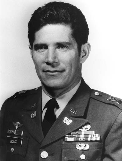 Louis Rocco, Sergeant First Class, United States Army, awarded the Medal of Honor for actions in the Vietnam War